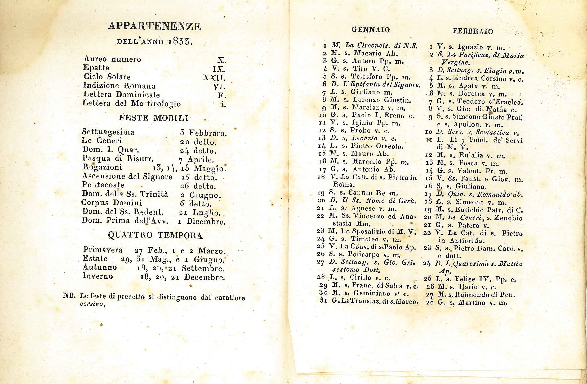 The first page of an almanach of the year 1833